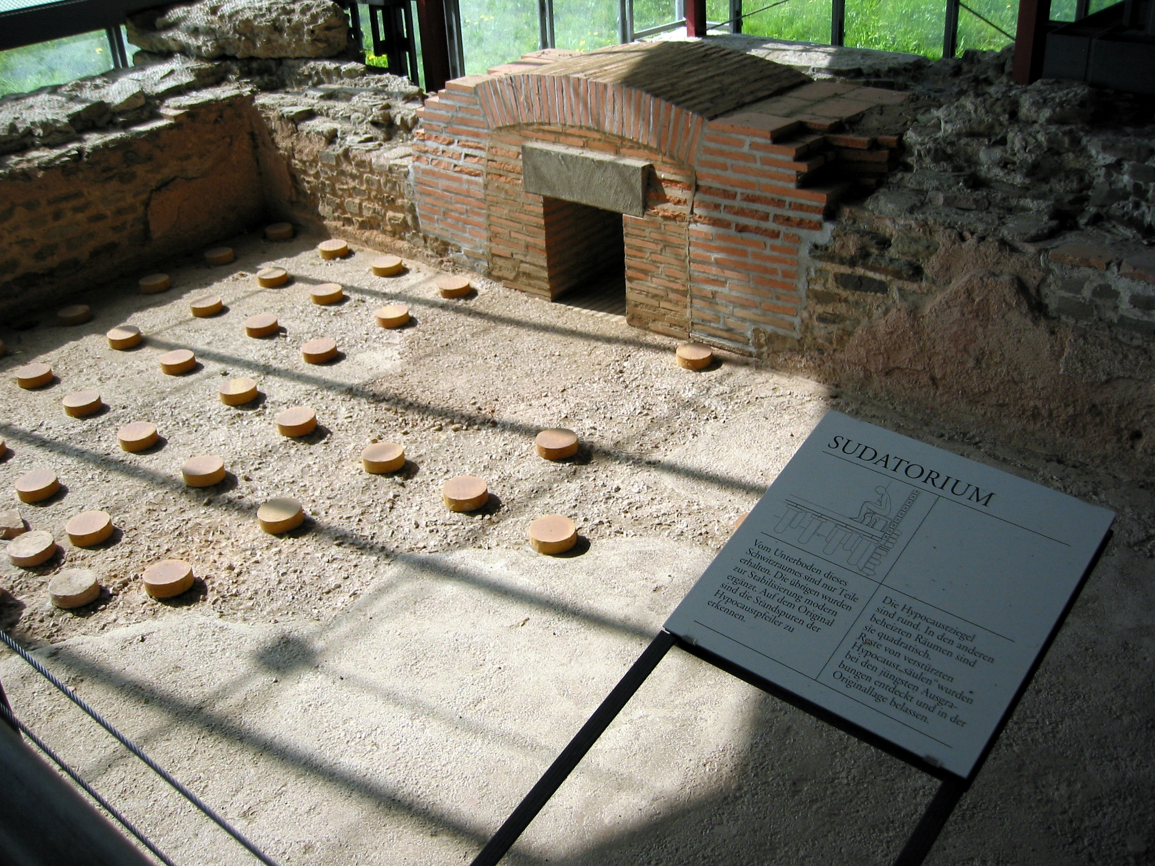 Photo taken April 23, 2005, by Magnus Manske, with expressed verbal permission. Colors/contrast enhanced with Picasa.